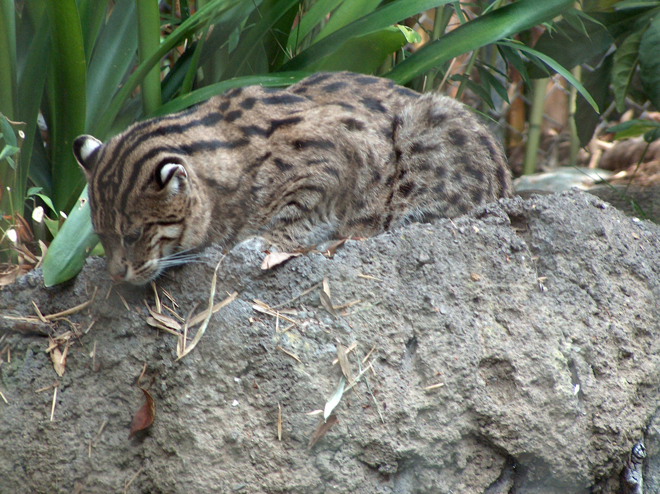 Fishing Cat (Prionailurus viverrinus) at the San Diego zoo. Originally incorrectly identified as a lynx. Photo taken by User:Mike R on 8 August, 2005.